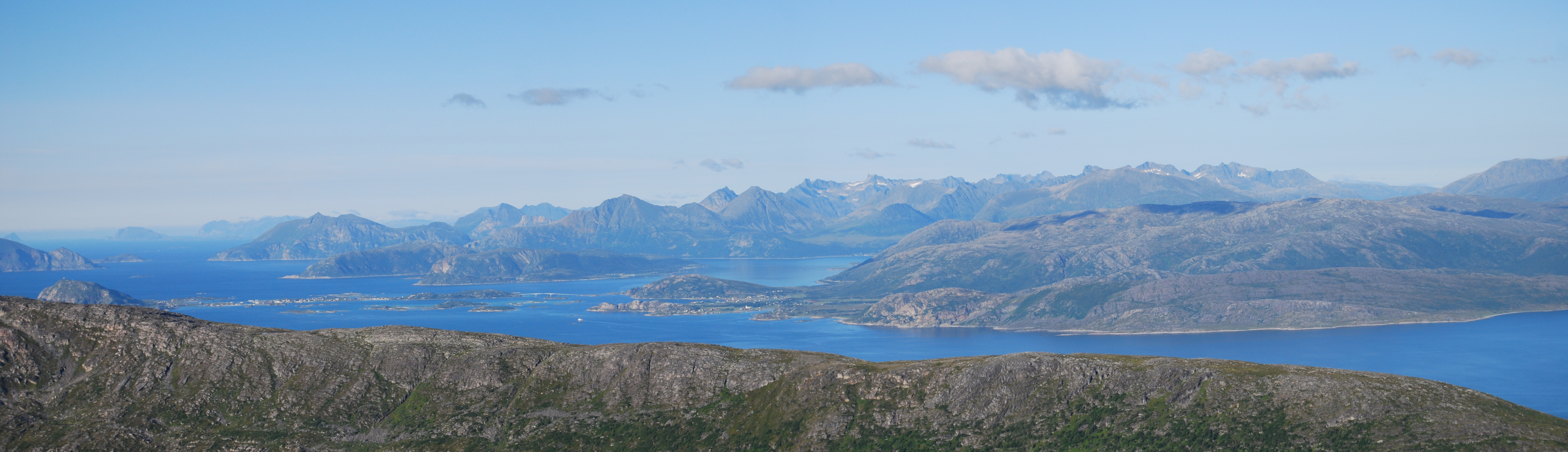 Fjord Malangen from Skinnkollen mountain in northern west end of Senja, Norway.